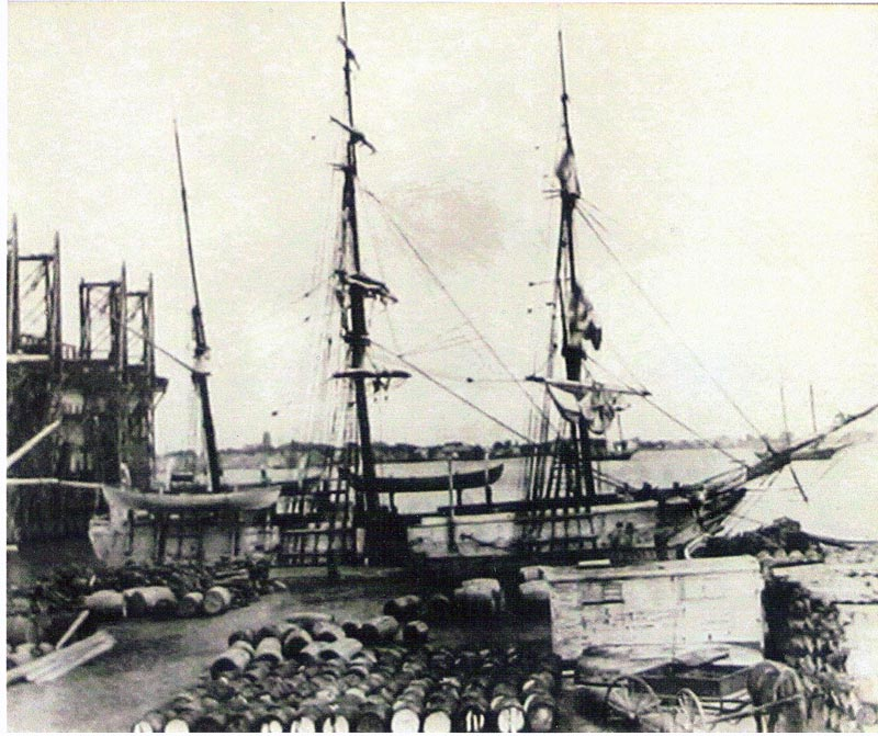 The Catalpa in Dock probably in New Bedford. Low quality image reproduced from an image on display at Fremantle prison )